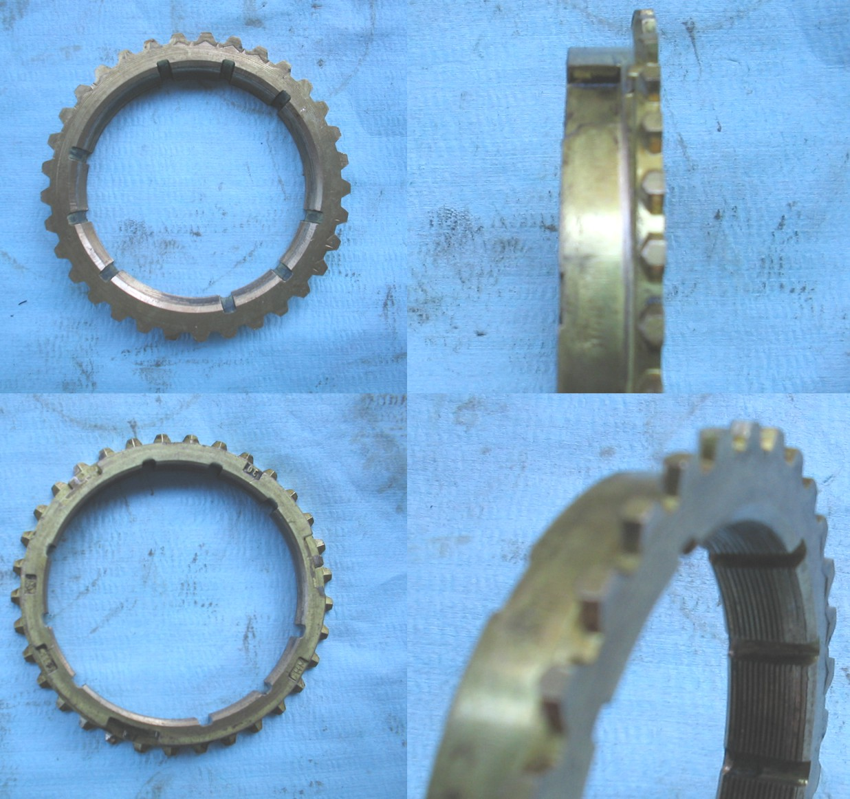 synchronization of the Volkswagen Golf 1600 4th Series